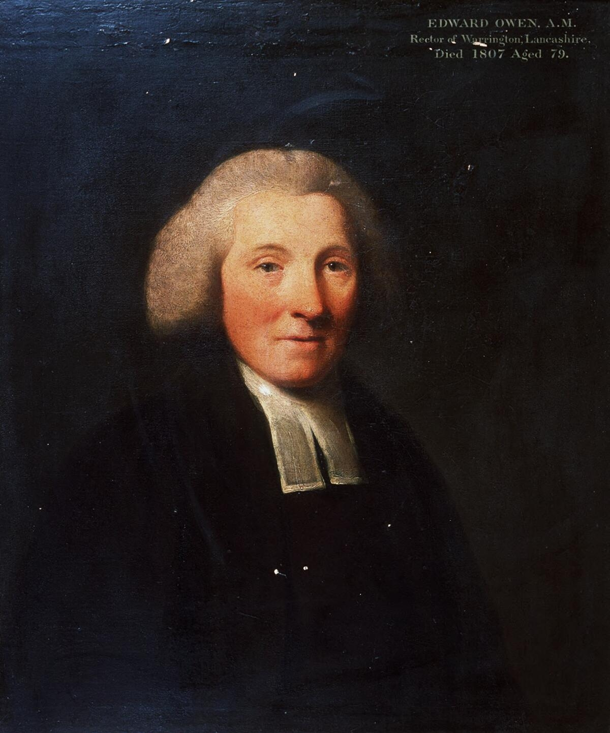 A painting from the Framed Works of Art collection at the National Library of wales.